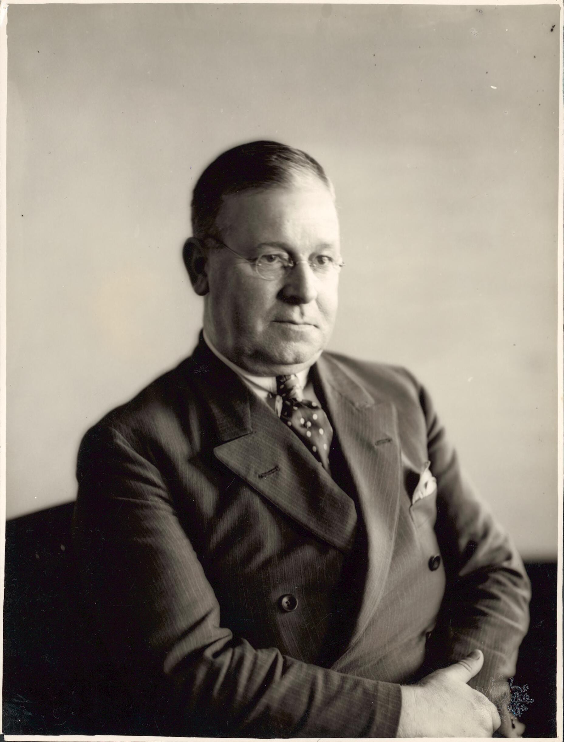 Australian politician Archdale Parkhill